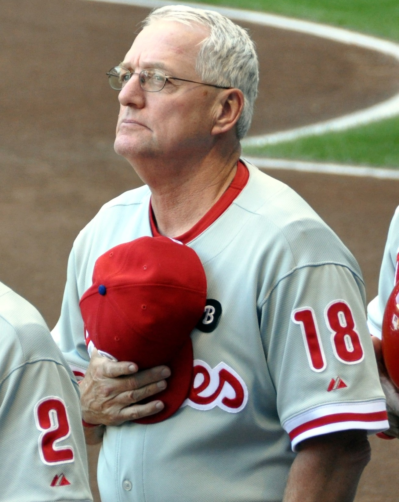 Charlie Manuel, Sam Perlozzo, Greg Gross and Juan Samuel of the Philadelphia Phillies stand during the National Anthem before a game at Miller Park in 2011